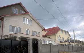 Stella's House 2 and 3 from the front of property, Moldova